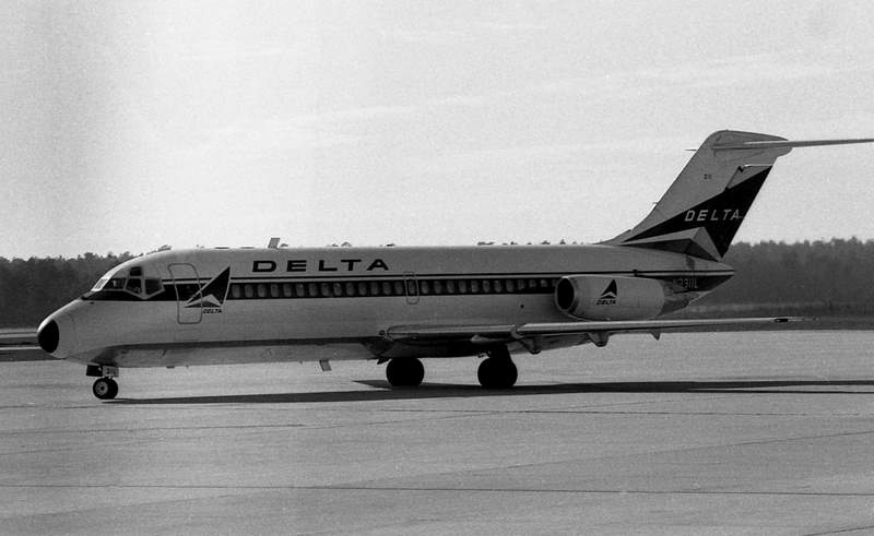 A Delta DC-9 passenger jet sits on the tarmac at the airport in Columbia, South Carolina, 1973.